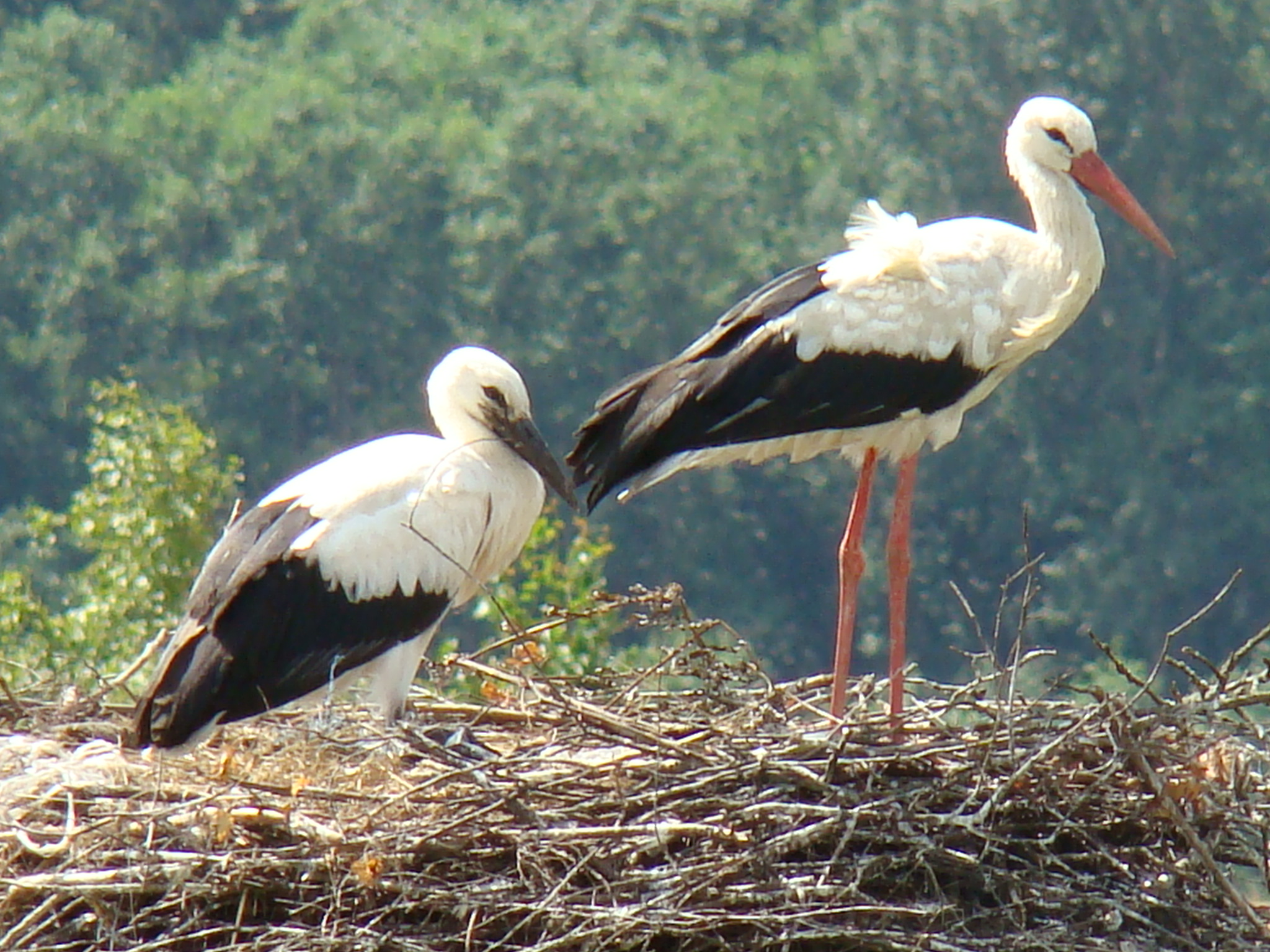 Photo of the White Stork's family (Ciconia ciconia) in Kuziai, Siauliai, Lithuania.